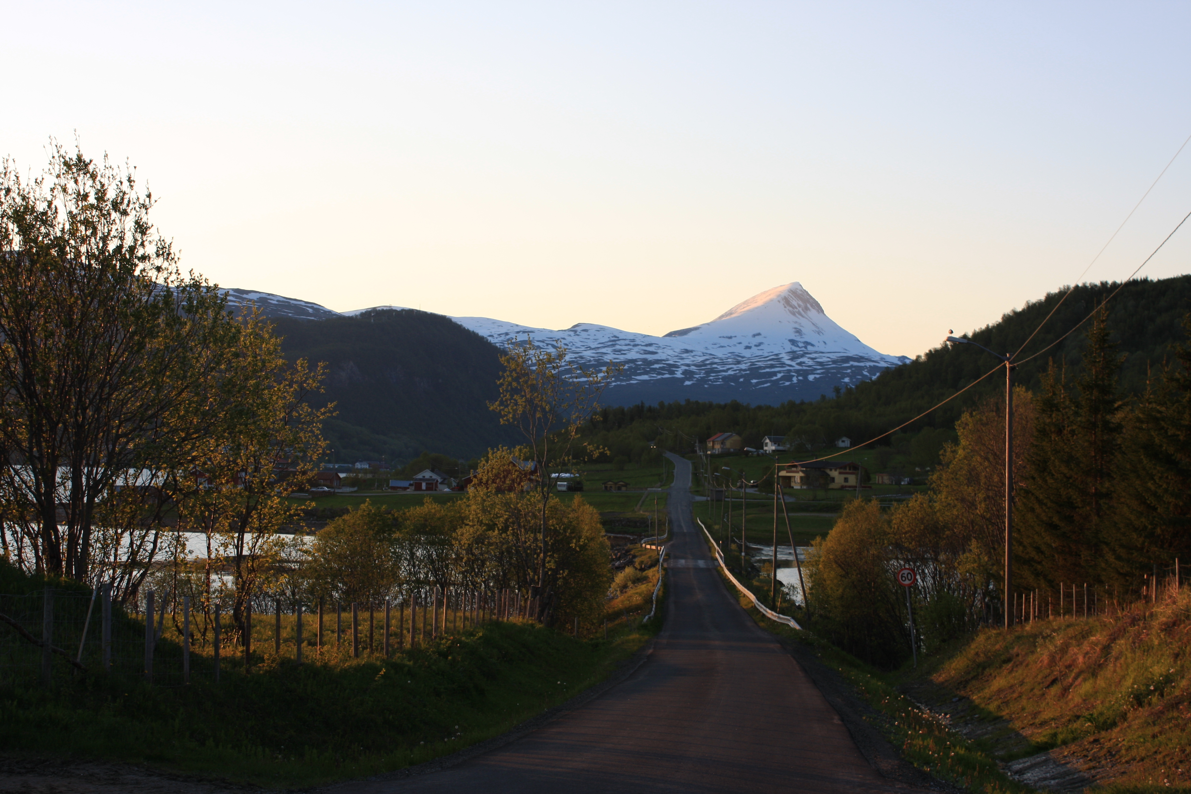 Andersdalen with Tromsdalstinden pointing upwards in the distance.